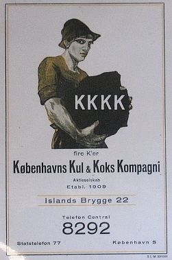 Poster for Danish coal import company KKKK.